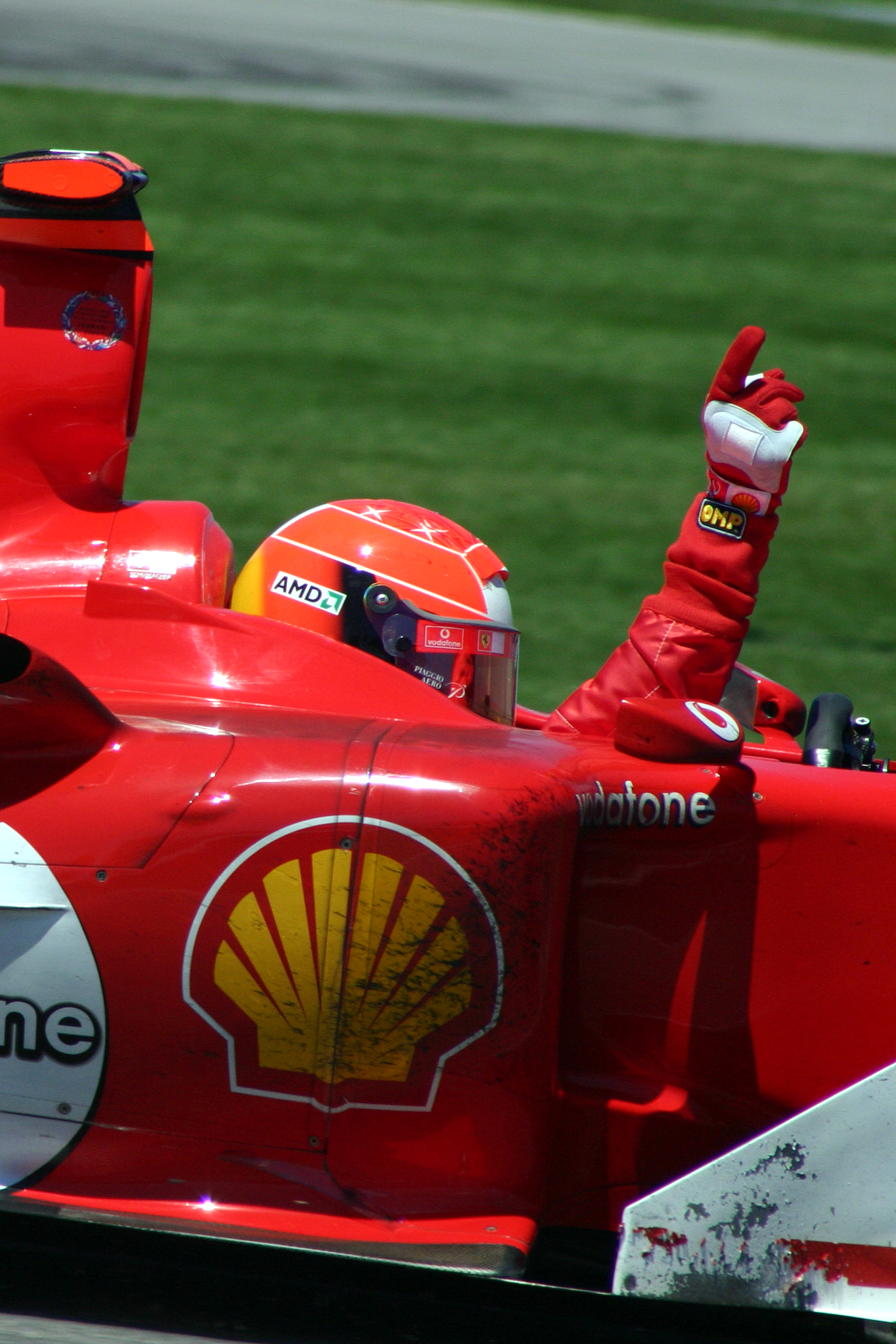 Michael Schumacher celebrates his victory at the 2004 United States Grand Prix at Indianapolis, 6/20/2004